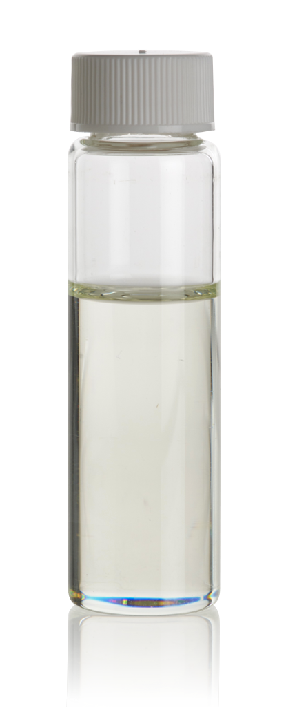 Black Pepper (Piper nigrum) Essential Oil in clear glass vial